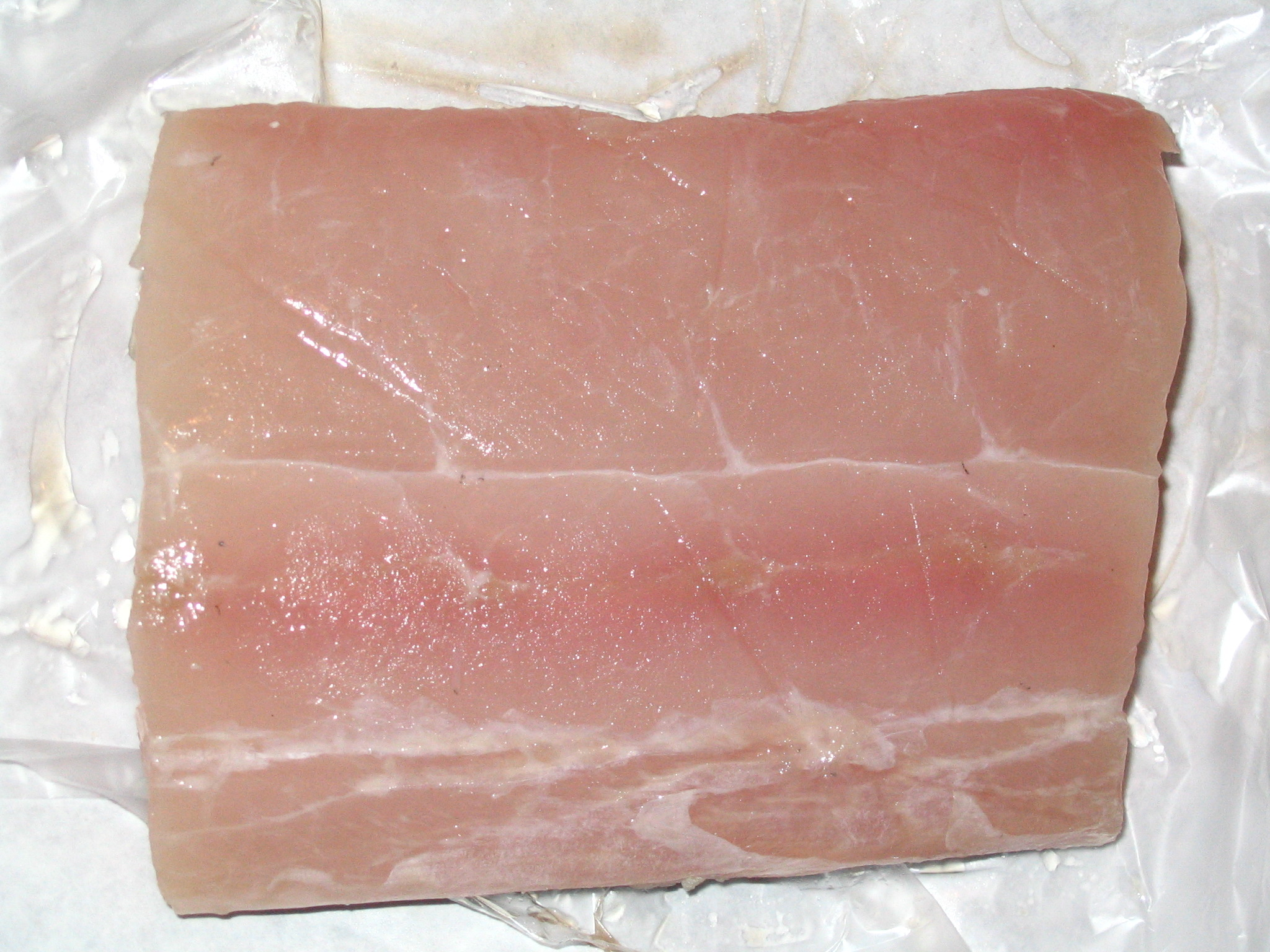 A picture of a serving of Coryphaena hippurus (Mahi-mahi) meat that I took with my digital camera.